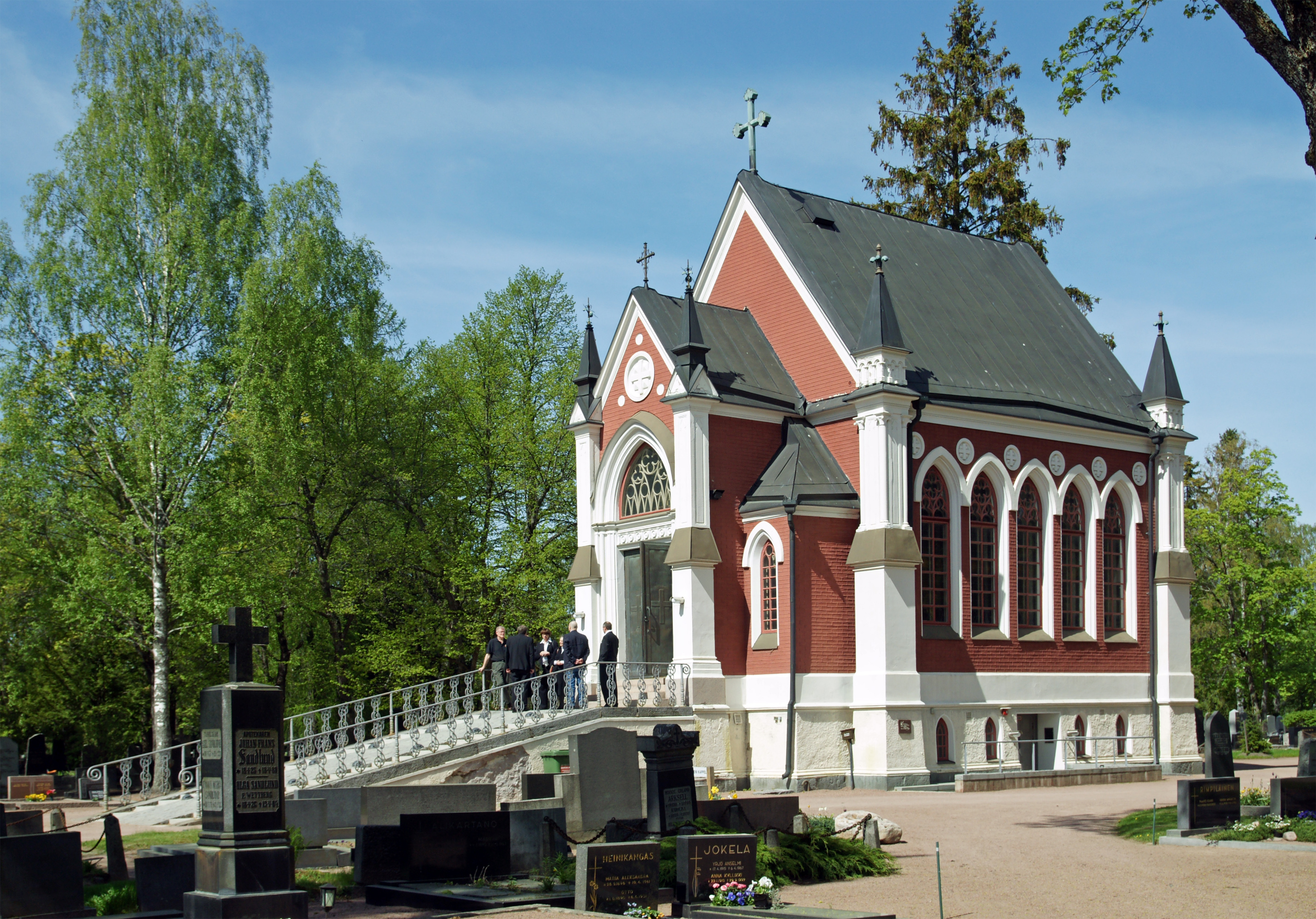 Small chapel of Käppärä in Pori, Finland.